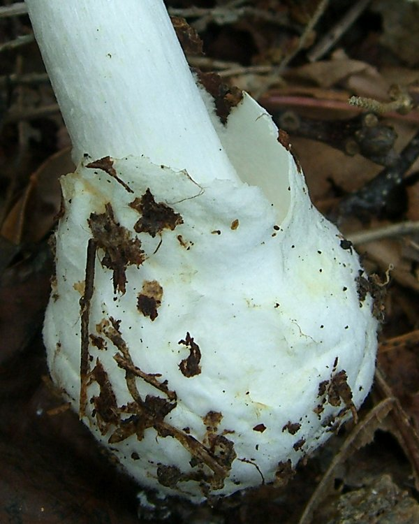 Scientific Name: Amanita virosa Secr. Common Name: Destroying Angel Certainty: not sure (notes) Location: Southern Appalachians; Smokies; CabinCove